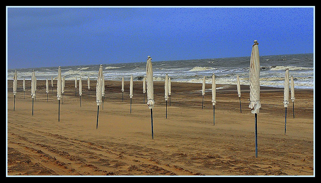 Seashore - Cariló, Argentina